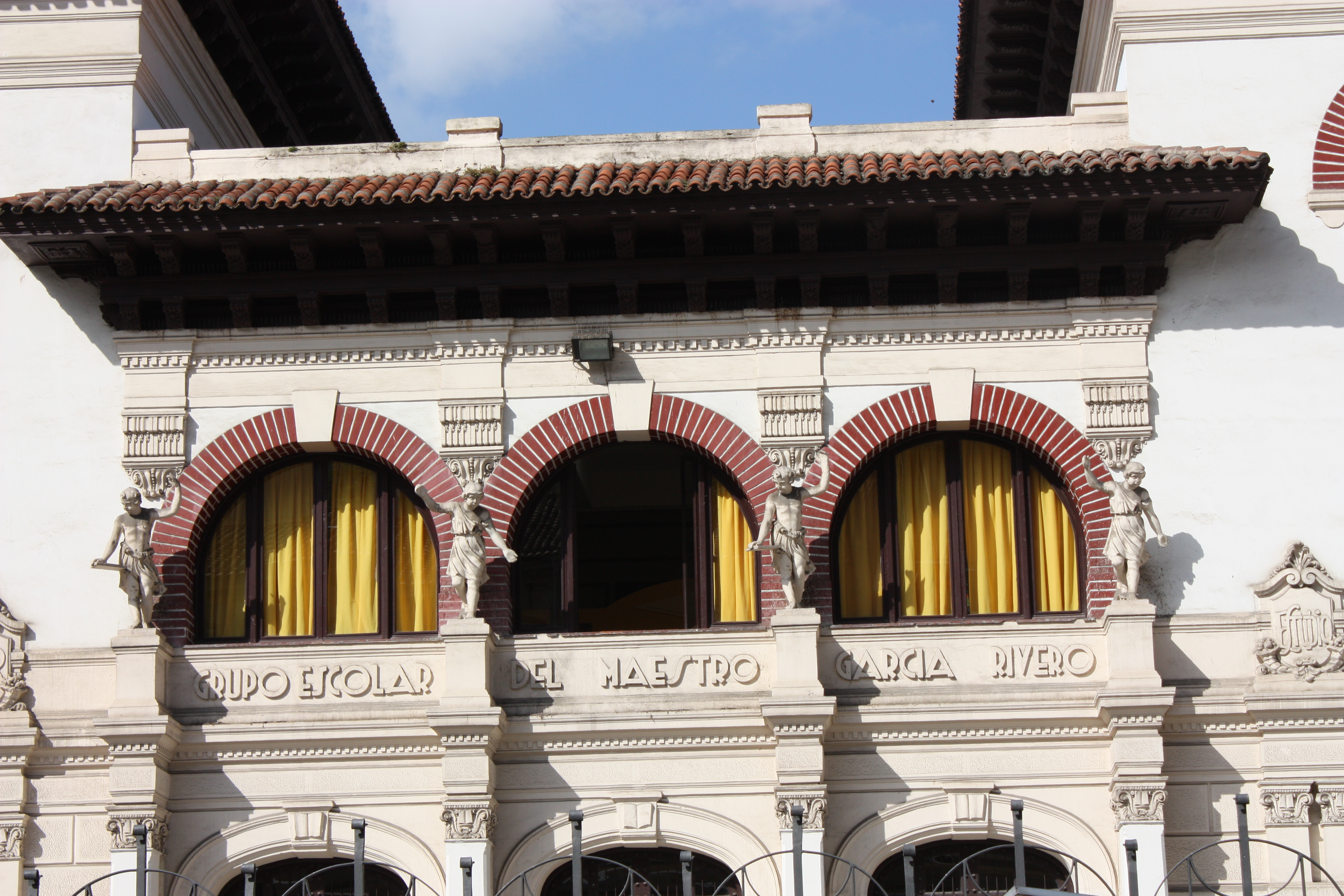 School, Calle Atxuri, Bilbao, Biscay, Spain, July 2010